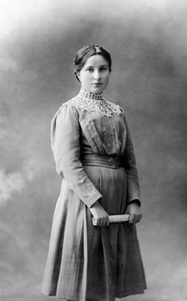 Maria Valtorta, italian religious writer, mystic, at age 15